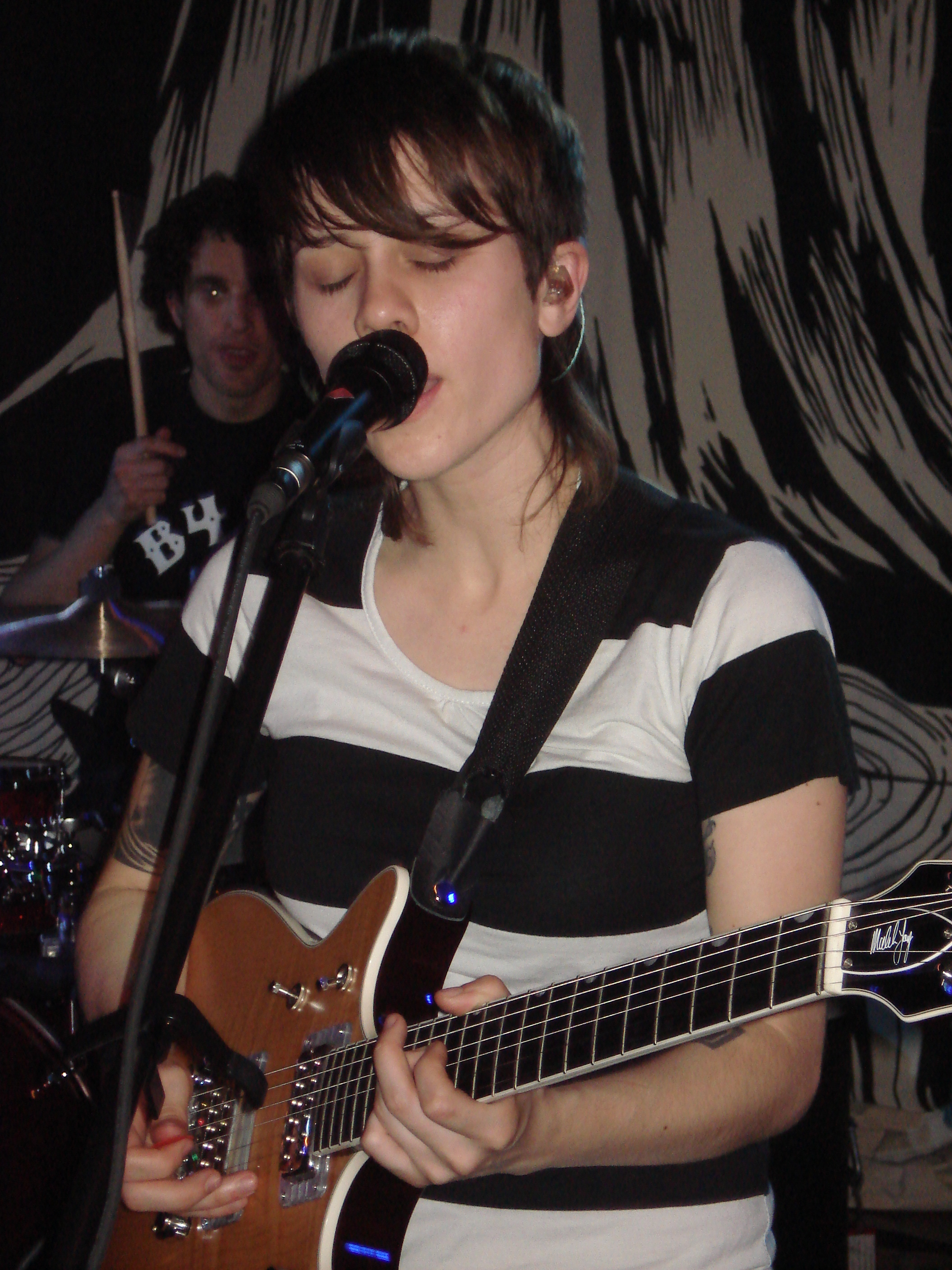 Sara of Tegan & Sara during a concert a Sydenham United Church in Kingston, Ontario, Canada.